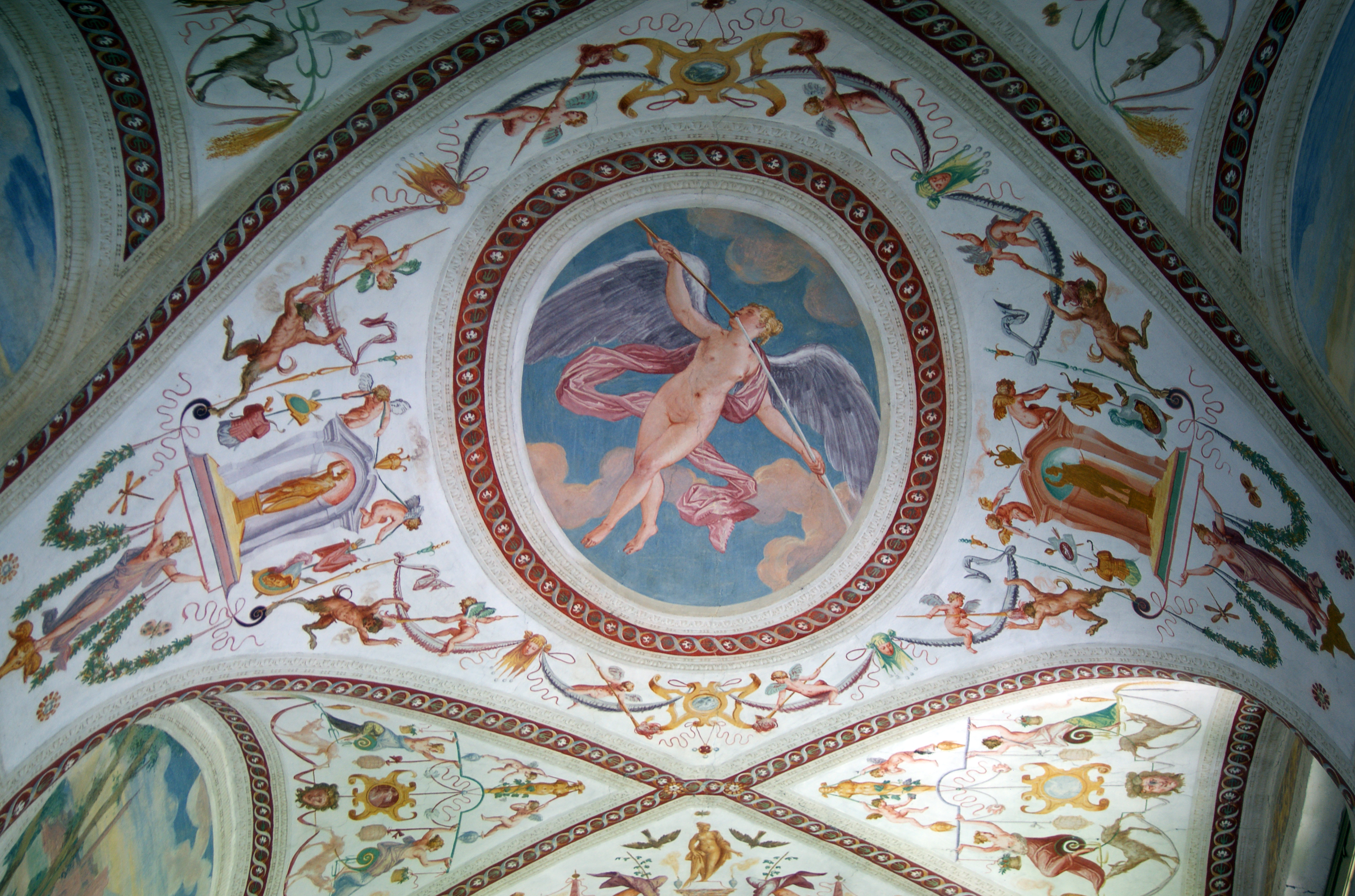 Villa Foscari says « La Malcontenta ». Ceiling in grotesque